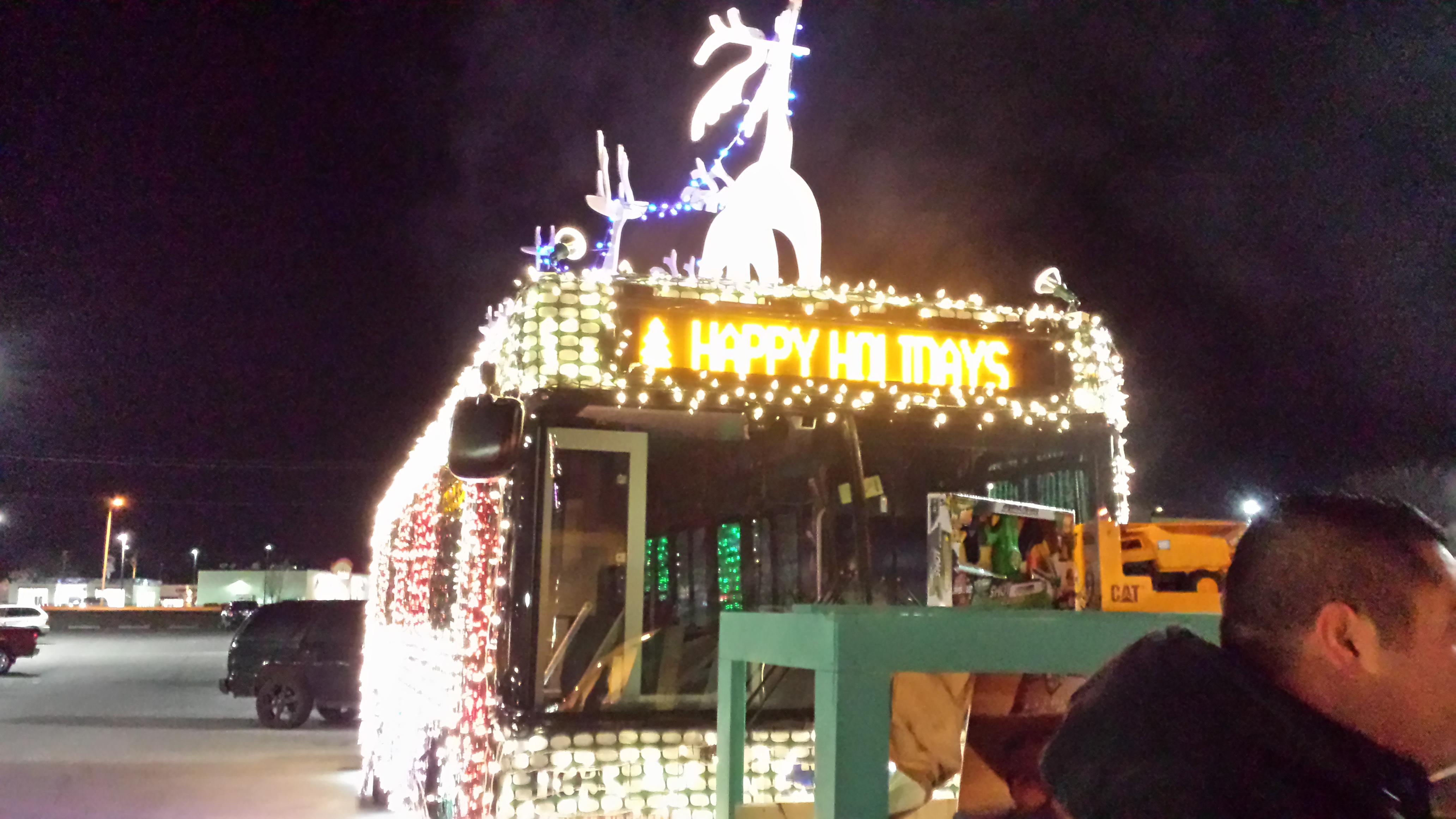 Christmas Bus All Lit Up for Toys For Tots!!